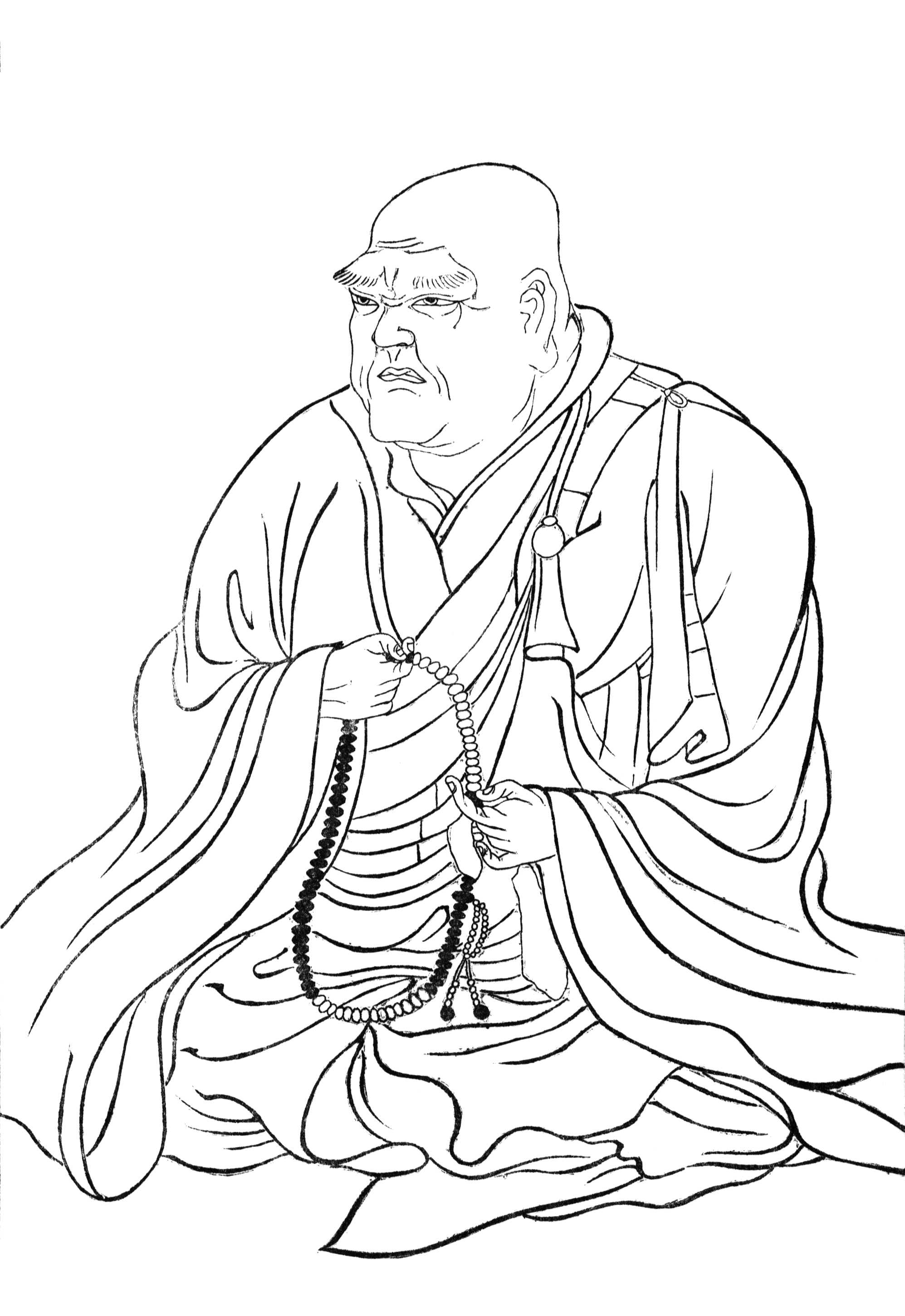 Portrait of Utsunomiya Tomotsuna